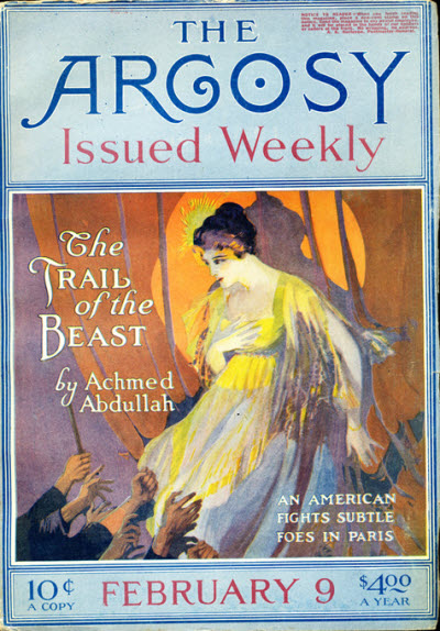 The Argosy, February 9, 1918.